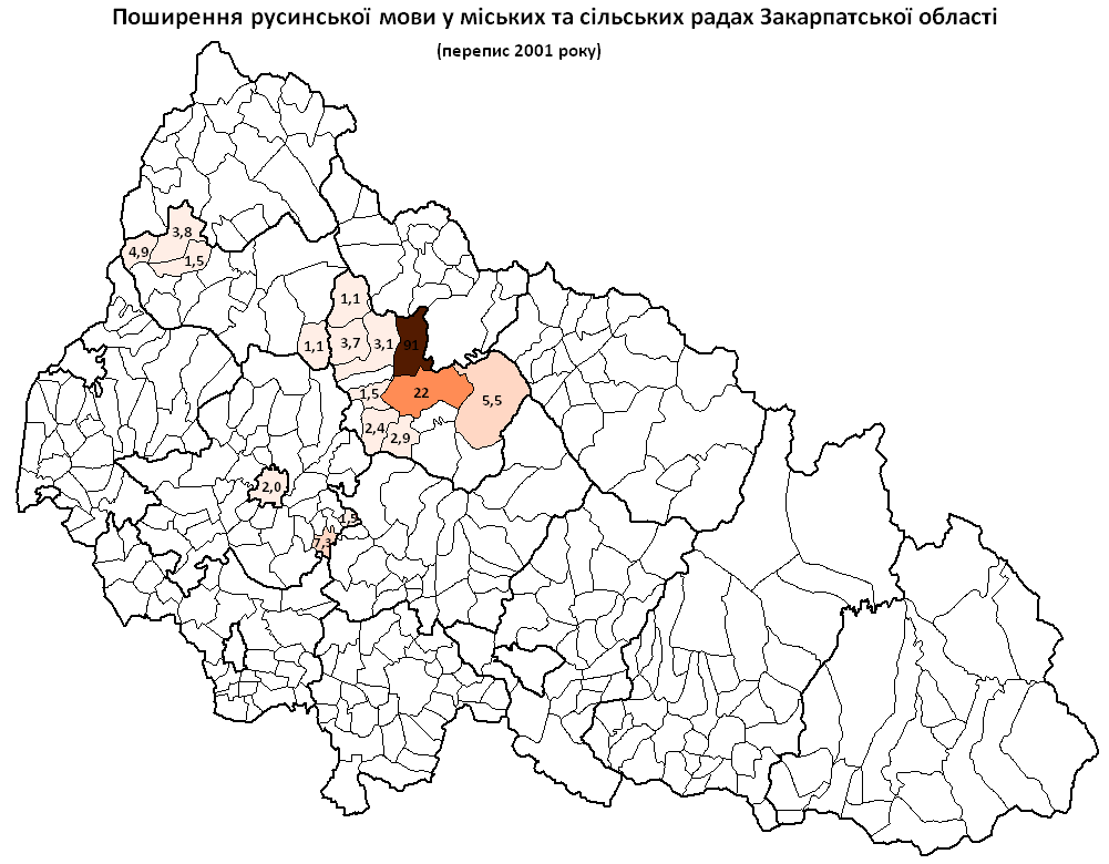 Rusyn as native language in Zakarpattya oblast of Ukraine according to 2001 census